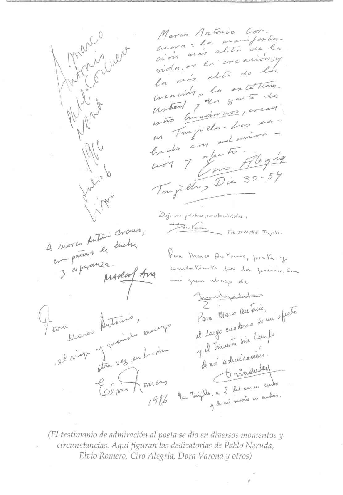 Writers' dedications to Marco Antonio Corcuera